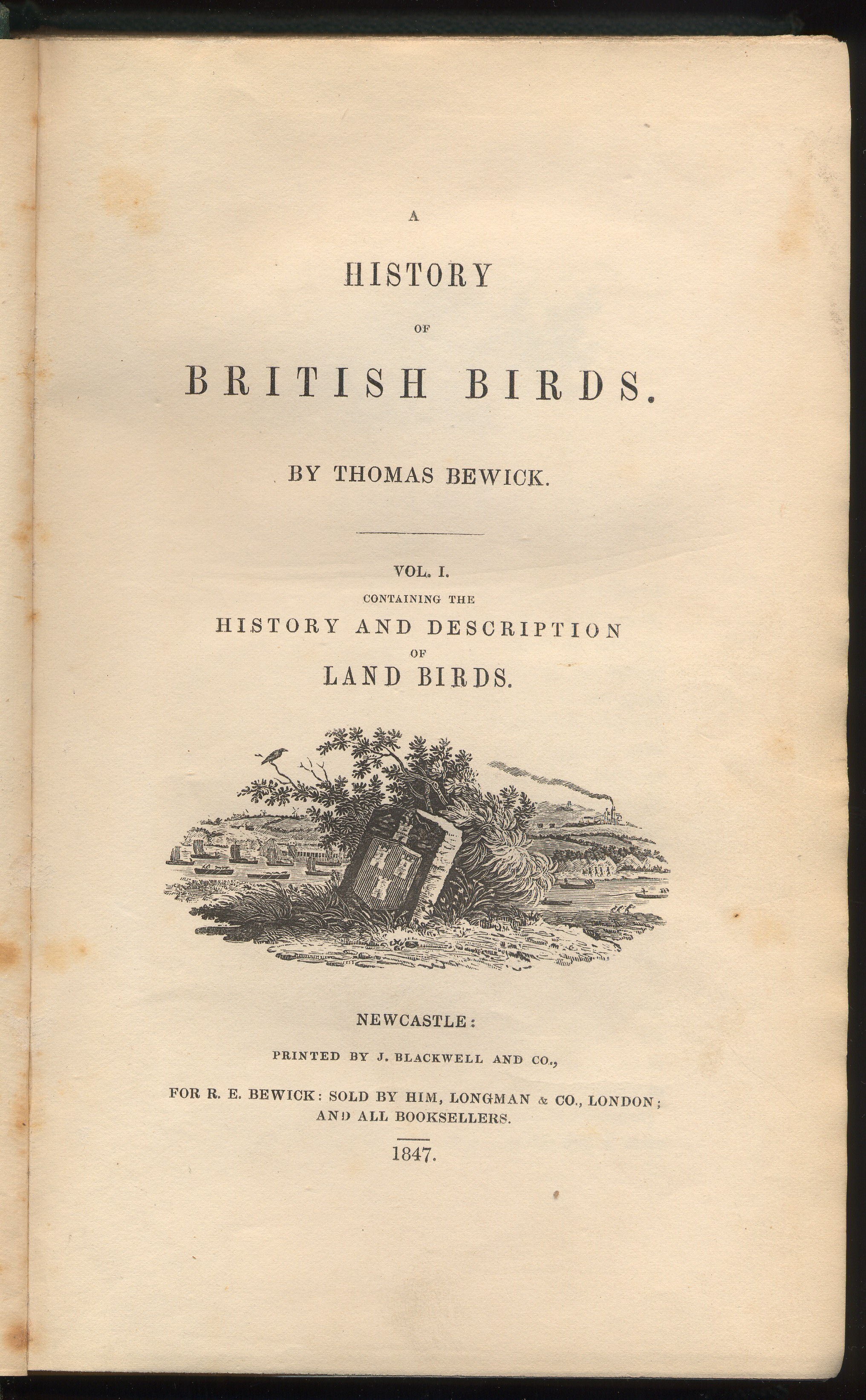 Title Page of History of British Birds by Thomas Bewick, 1847 edition, Volume 1, 'Land Birds'. Bewick, Newcastle and Longman, London.